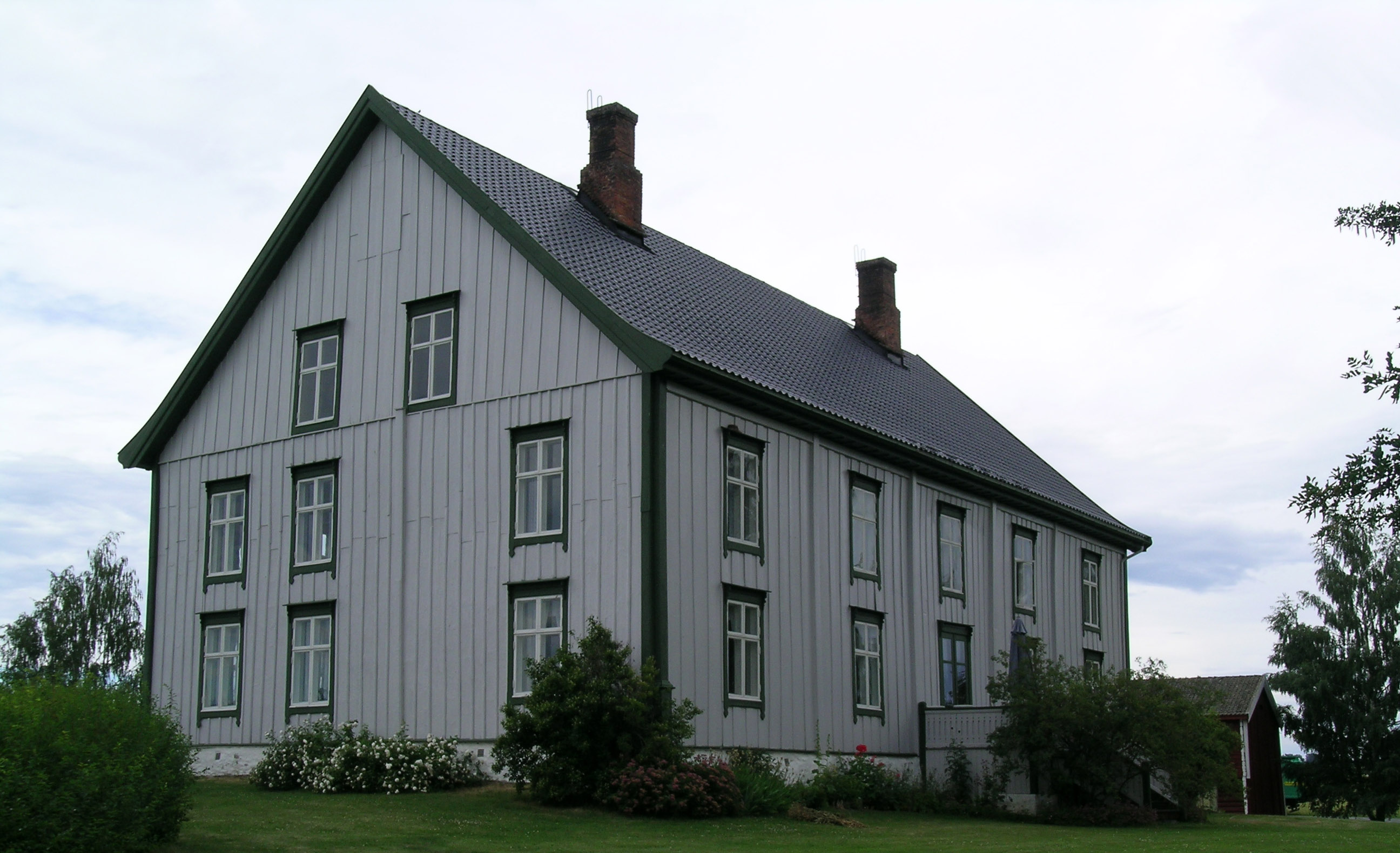 Stange parsonage, Stange, Hedmark, Norway